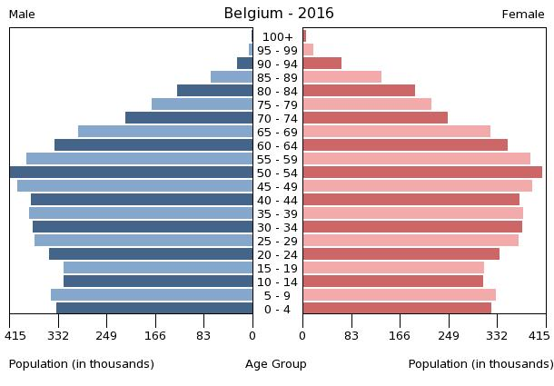 The population pyramid of Belgium illustrates the age and sex structure of population and may provide insights about political and social stability, as well as economic development. The population is distributed along the horizontal axis, with males shown on the left and females on the right. The male and female populations are broken down into 5-year age groups represented as horizontal bars along the vertical axis, with the youngest age groups at the bottom and the oldest at the top. The shape of the population pyramid gradually evolves over time based on fertility, mortality, and international migration trends.